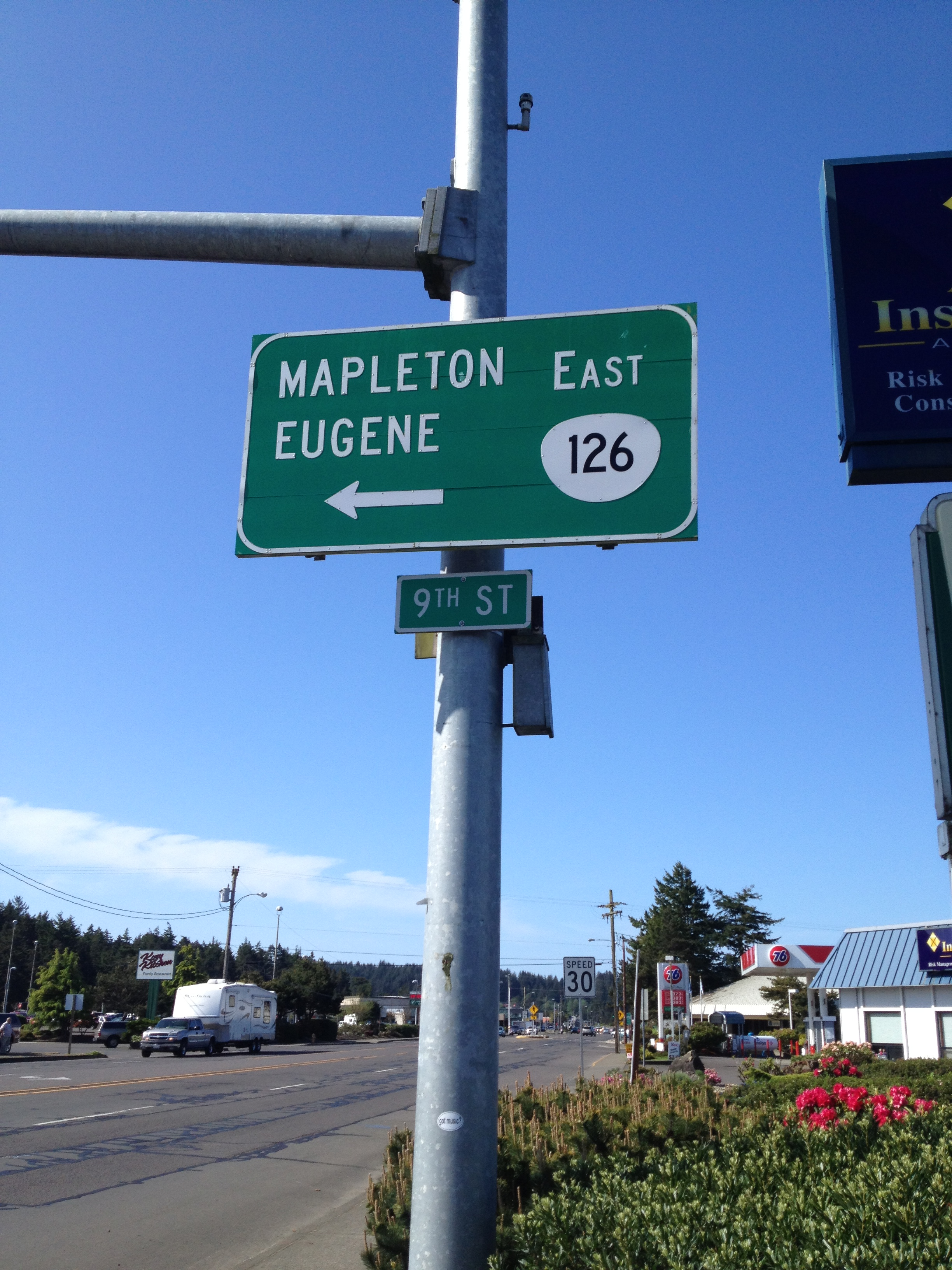 This is the start of Oregon in Florence.